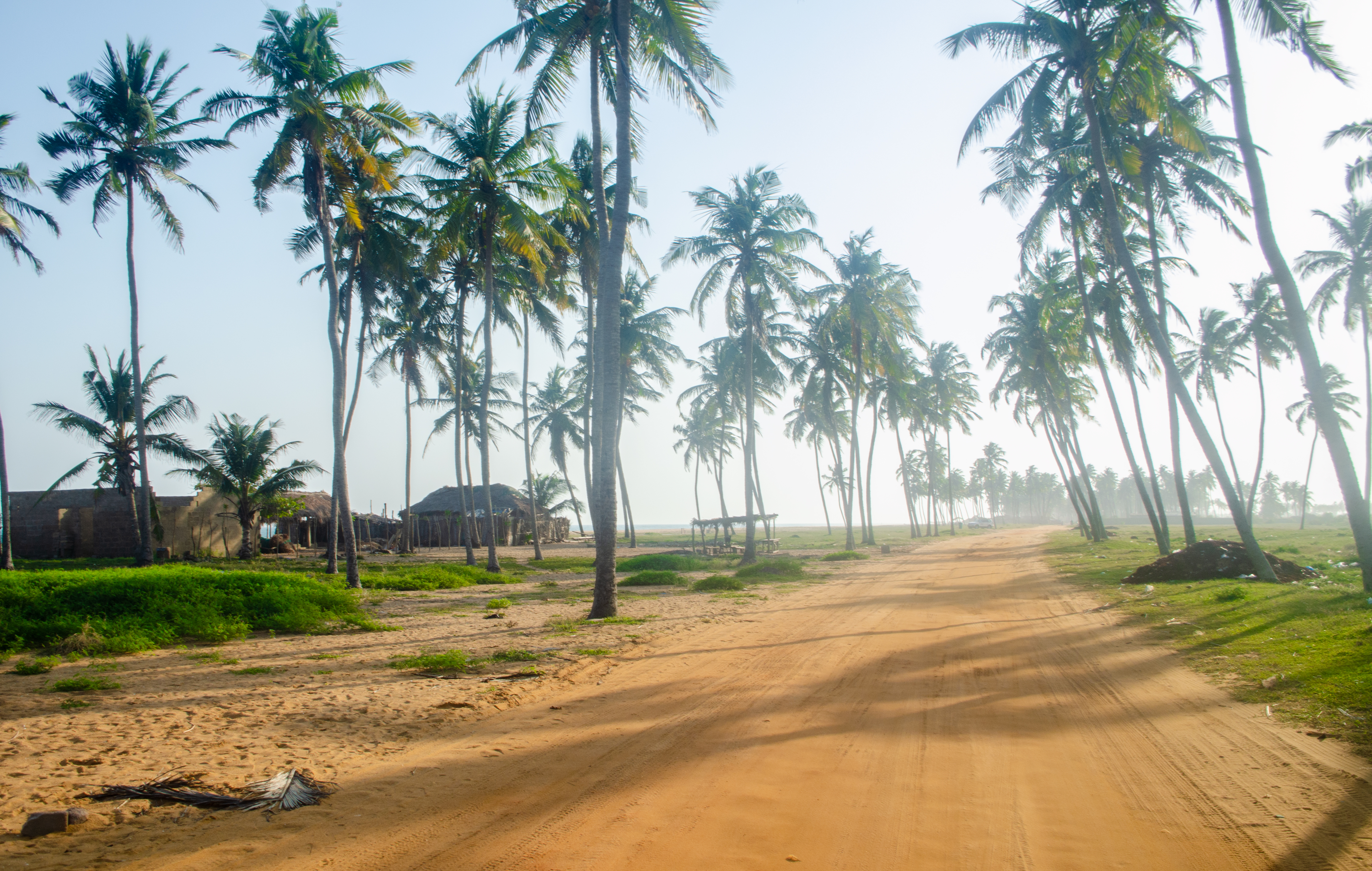 Benin Fisheries Route under development by the Head of State Mr Patrice TALON